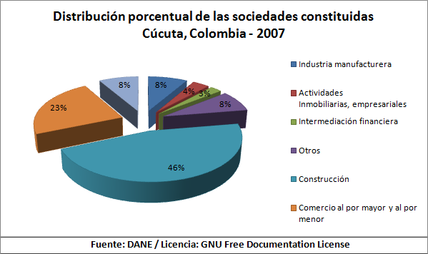 Created societies in Cúcuta, Colombia [2007]